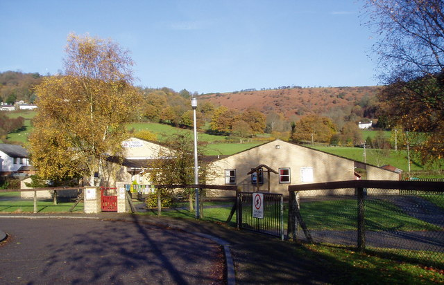 Ysgol Cynddelw Primary School at Glyn Ceiriog.